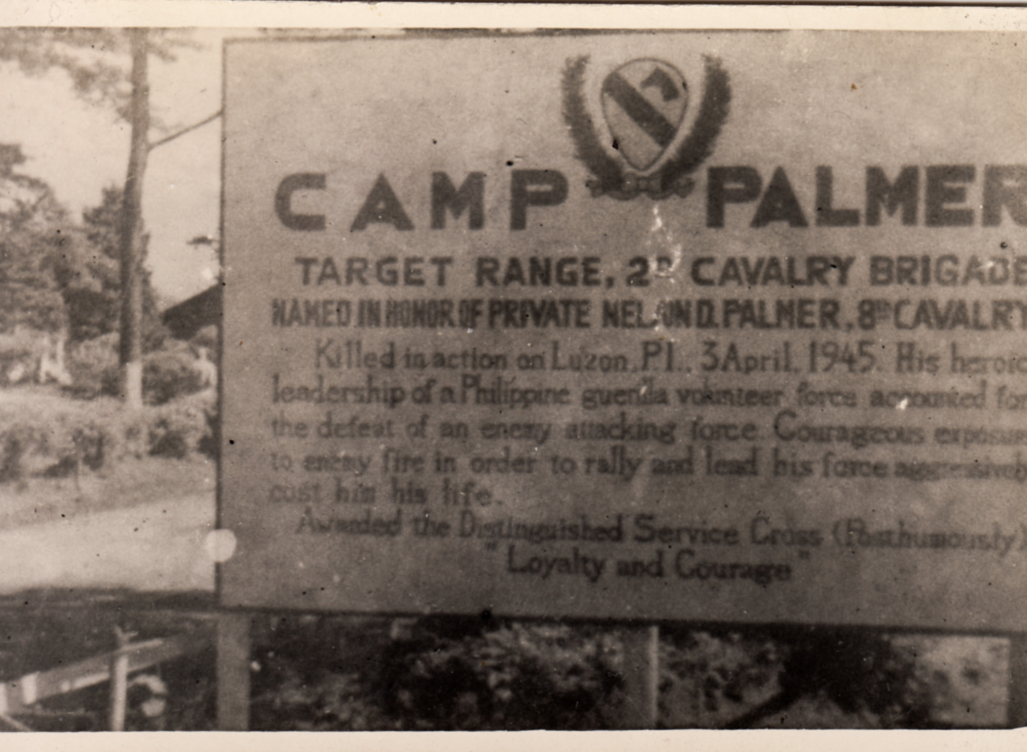 Camp Palmer Rifle Range sign